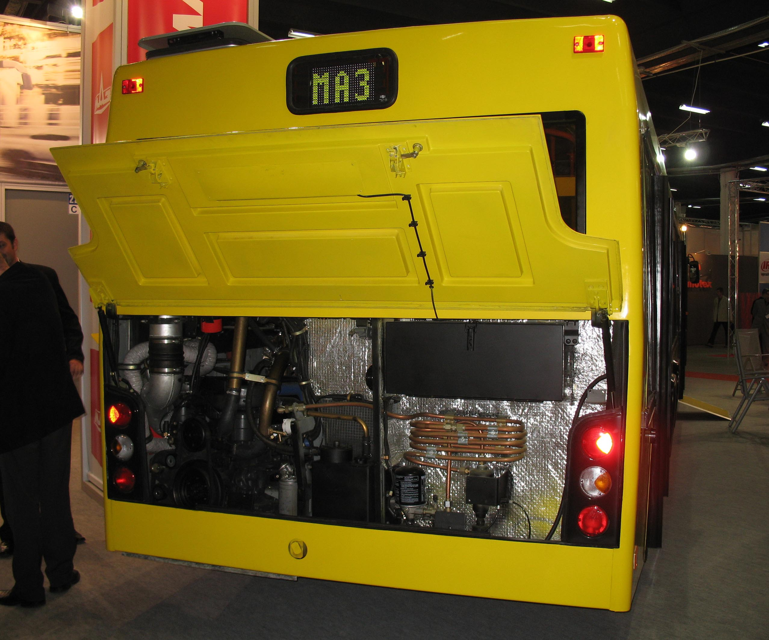 MAZ 107 bus (reg. AE 5257-7) in Kielce, Poland. Built 2008. Transexpo 2008.